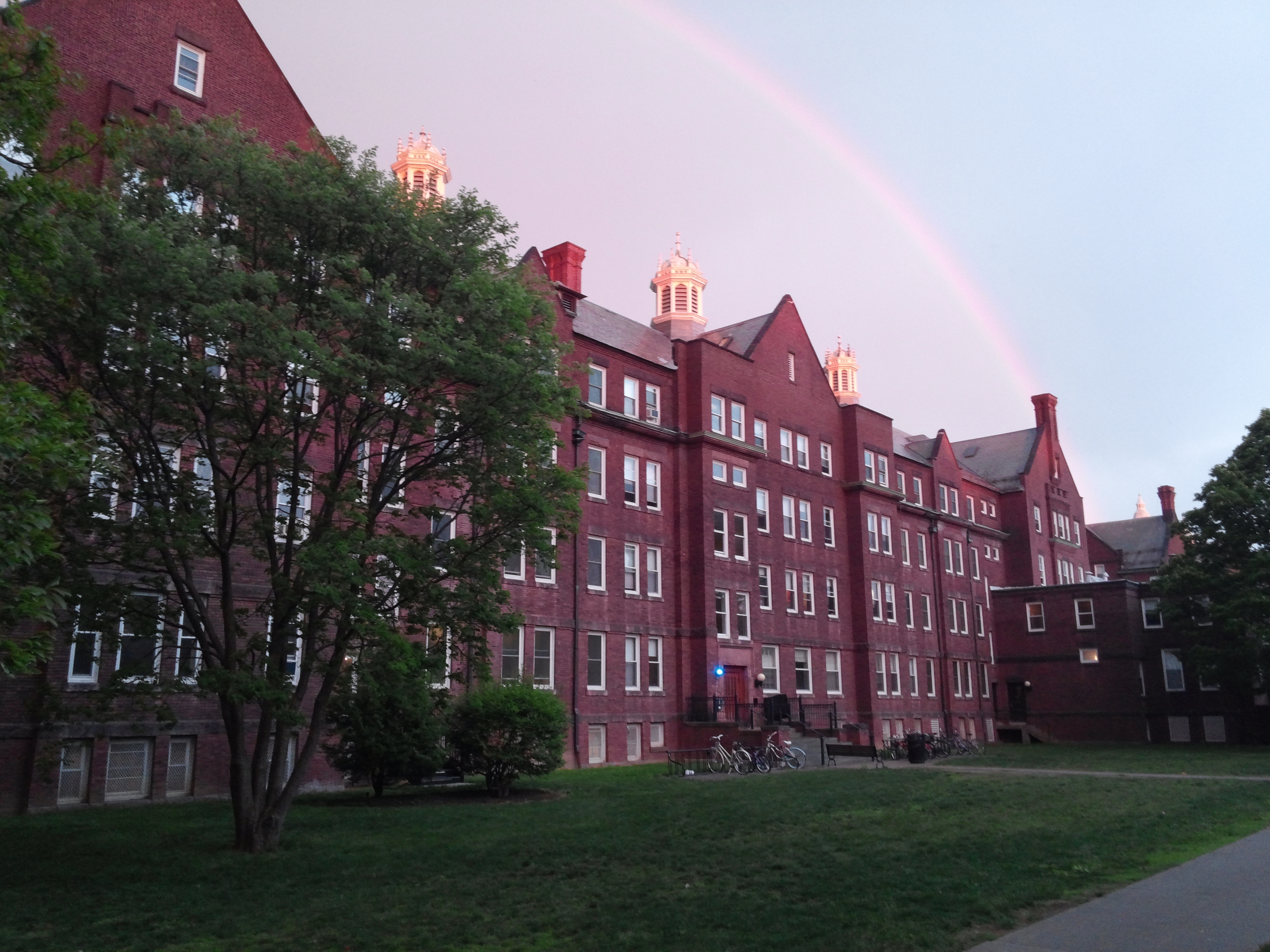 The 1901 Vassar College dormitory Lathrop House after a light rainfall with a nifty rainbow on the penultimate day of finals. Shown from the interior (quad) side.